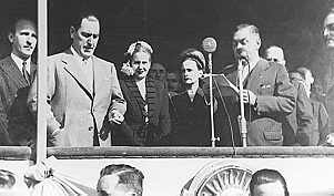 The Director of the Informations Division (División de Informaciones) of the Argentine Presidential Office (Presidencia de la Nación) Rodolfo Freude, far left, with Juan Perón and Eva Perón, on the October 17th of 1946 (Archivo General de la Nación).